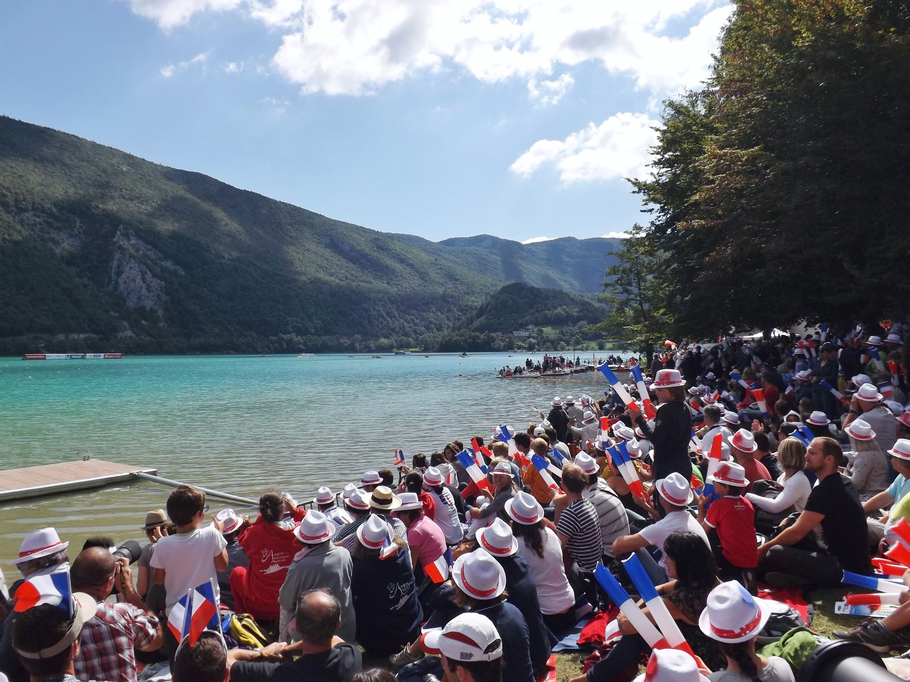 Sight of the French public supporting the French team (about to win the golden medal), during the 2015 World Rowing Championships taking place on the lac d'Aiguebelette lake, in Savoie, France.